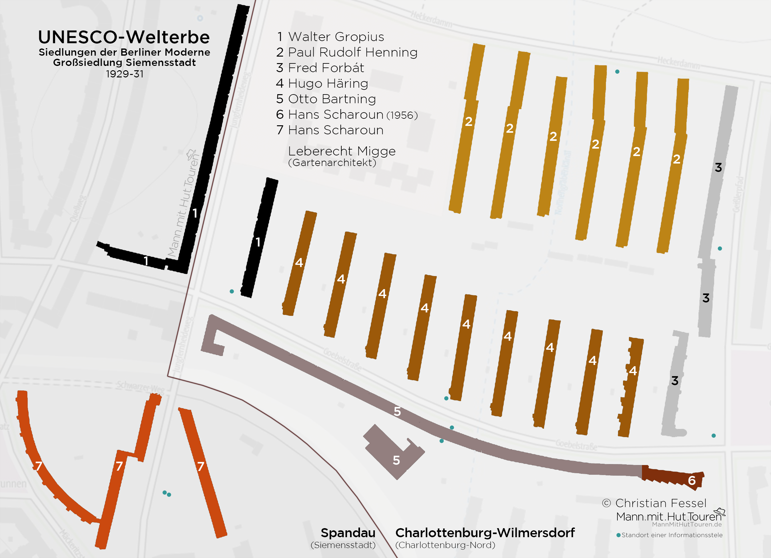 Map of the UNESCO World Heritage Site "Großsiedlung Siemensstadt"